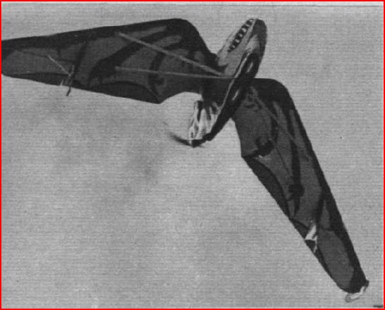 Westland Pterodactyl below view